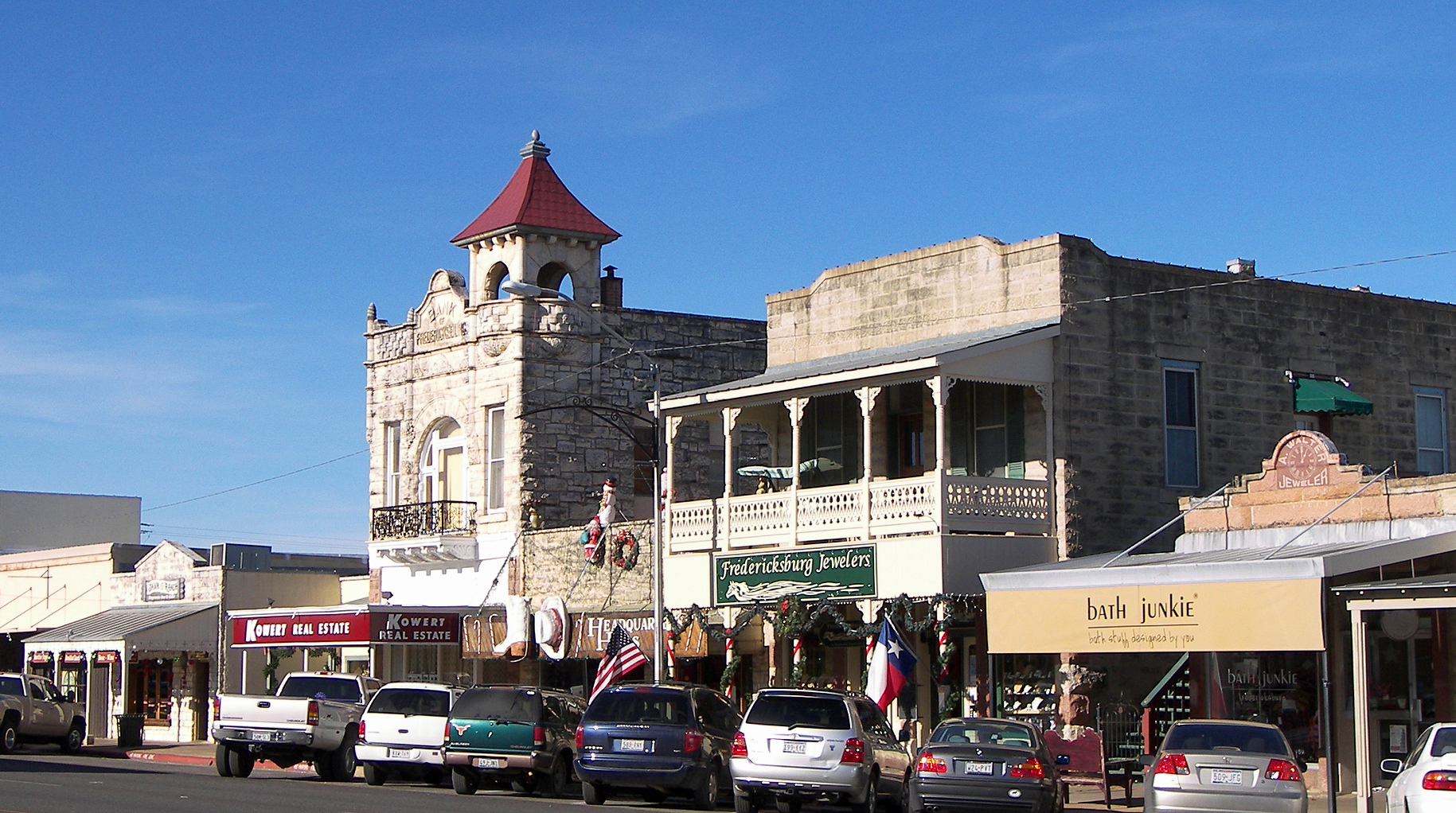 Buildings on Main Street are part of the Fredericksburg Historic District located in Fredericksburg, Texas, United States. The district was listed on the National Register of Historic Places on October 14, 1970. This is the 100 block of East Main Street, looking north towards cross street of Adams Street. The two-story limestone building with red tower is the Old Fredericksburg Bank building designed by Alfred Giles in 1889.